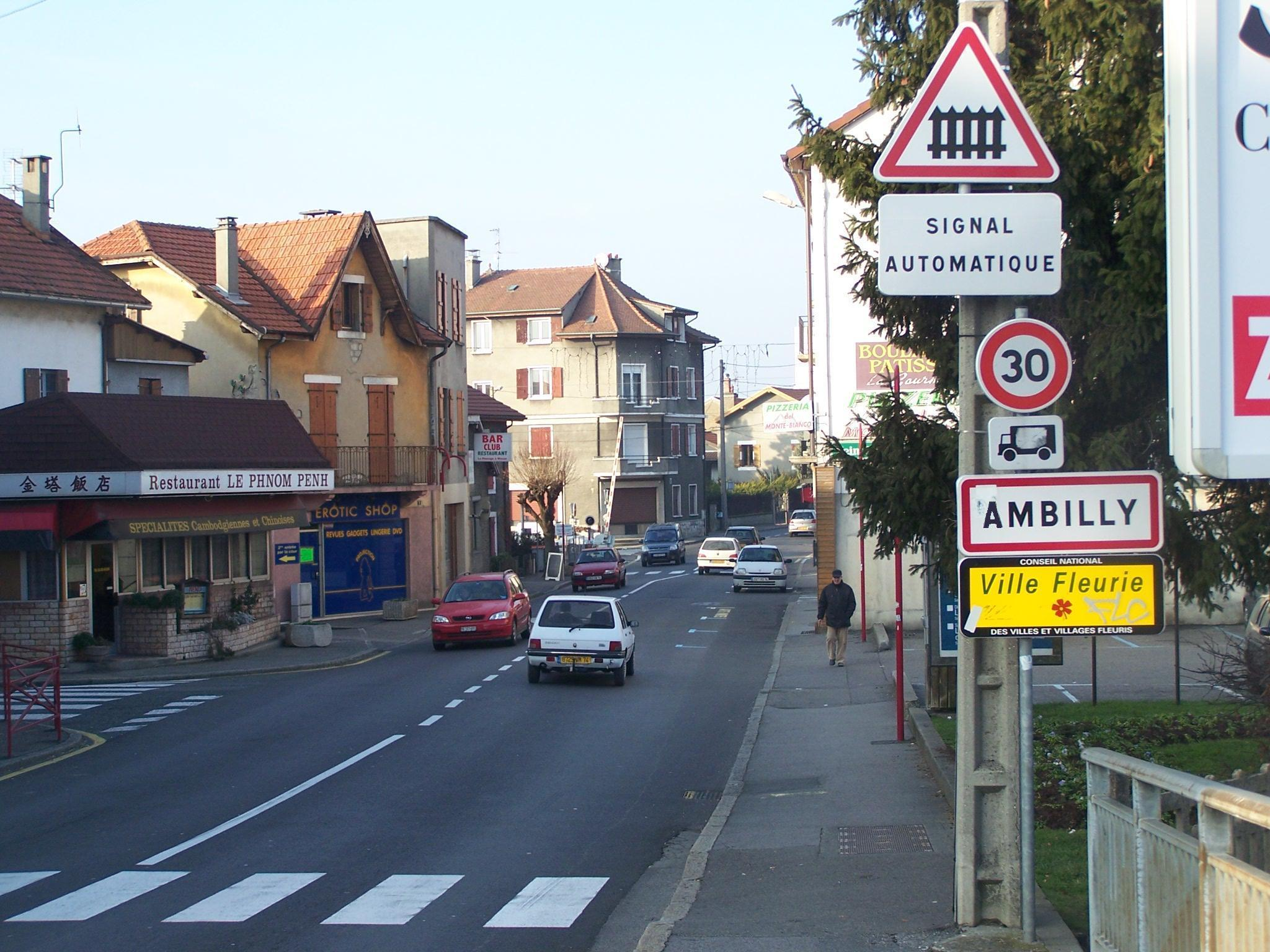 Sign welcoming visitors to the French commune of Ambilly, Haute-Savoie, France.